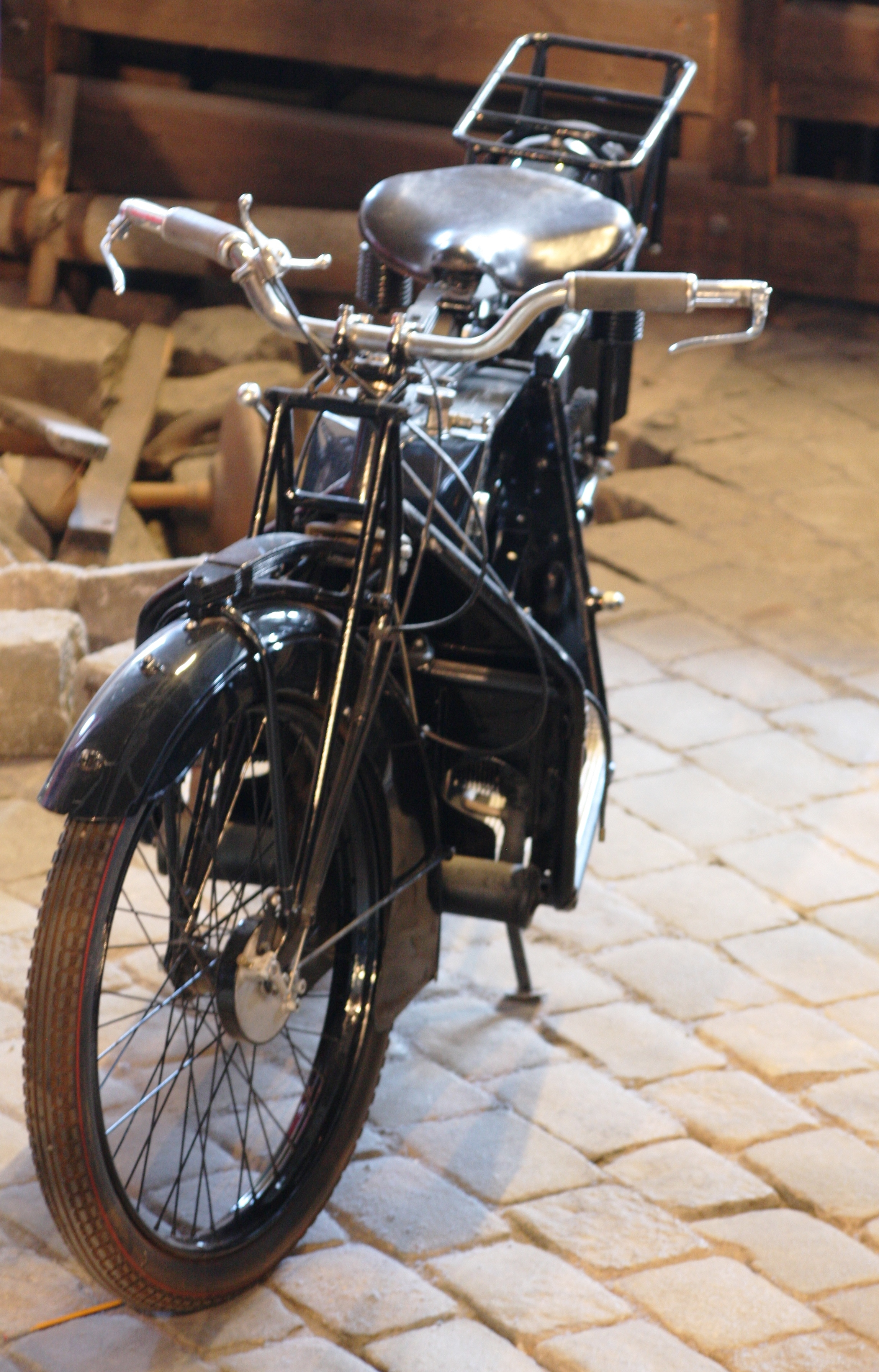 Sopwith ABC 1920 motorcycle. The bikes were a commercial failure, but the engine was copied by German BMW from 1925. Teknisk Museum, Oslo.